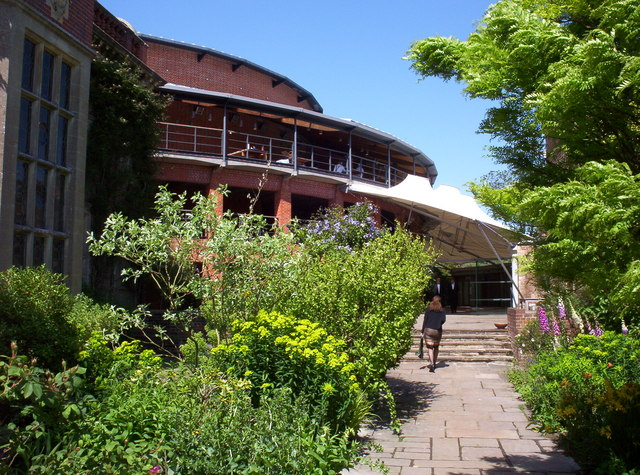 Glyndebourne Steps up to the Opera House